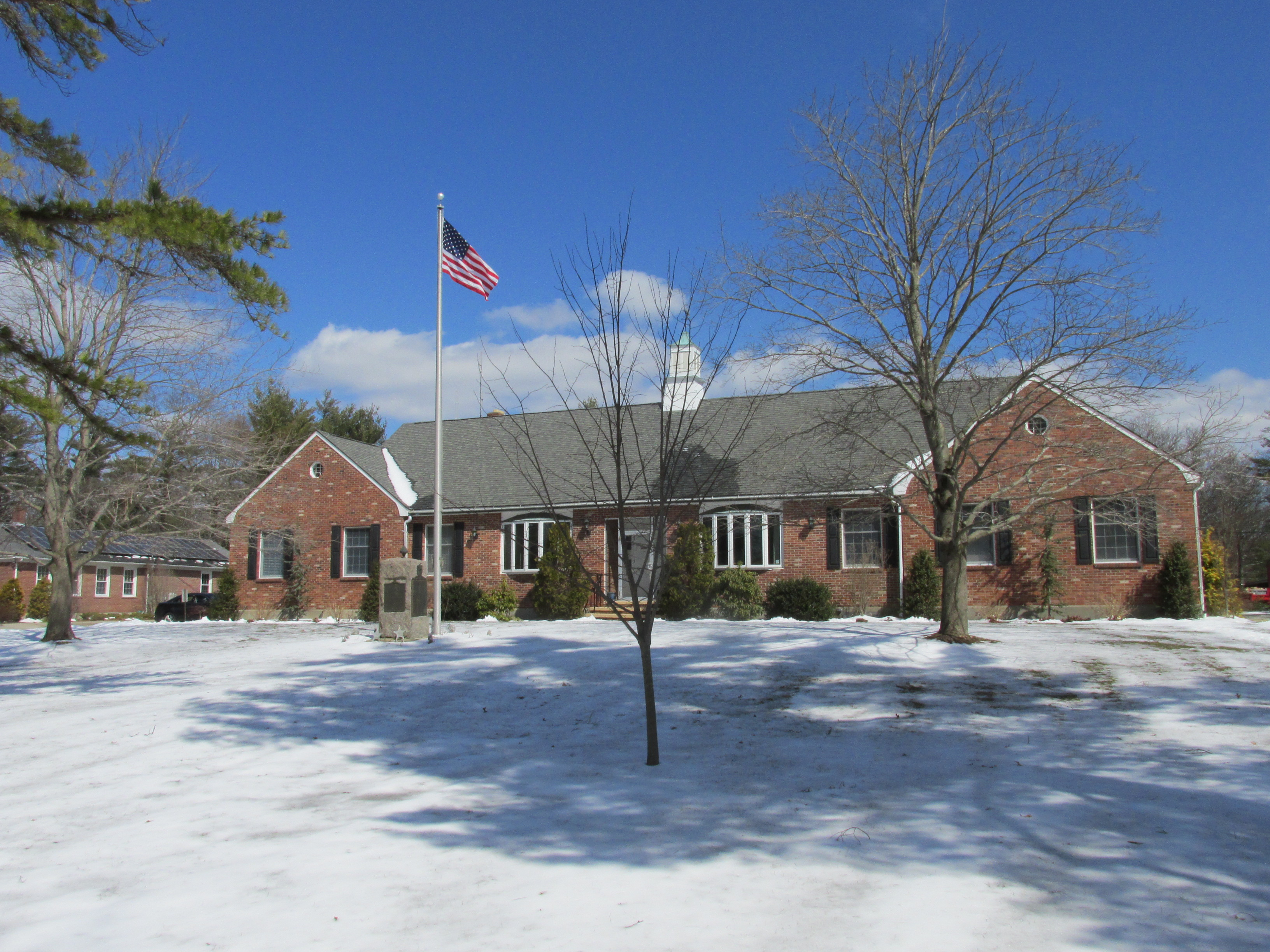 Town Offices, West Greenwich Rhode Island